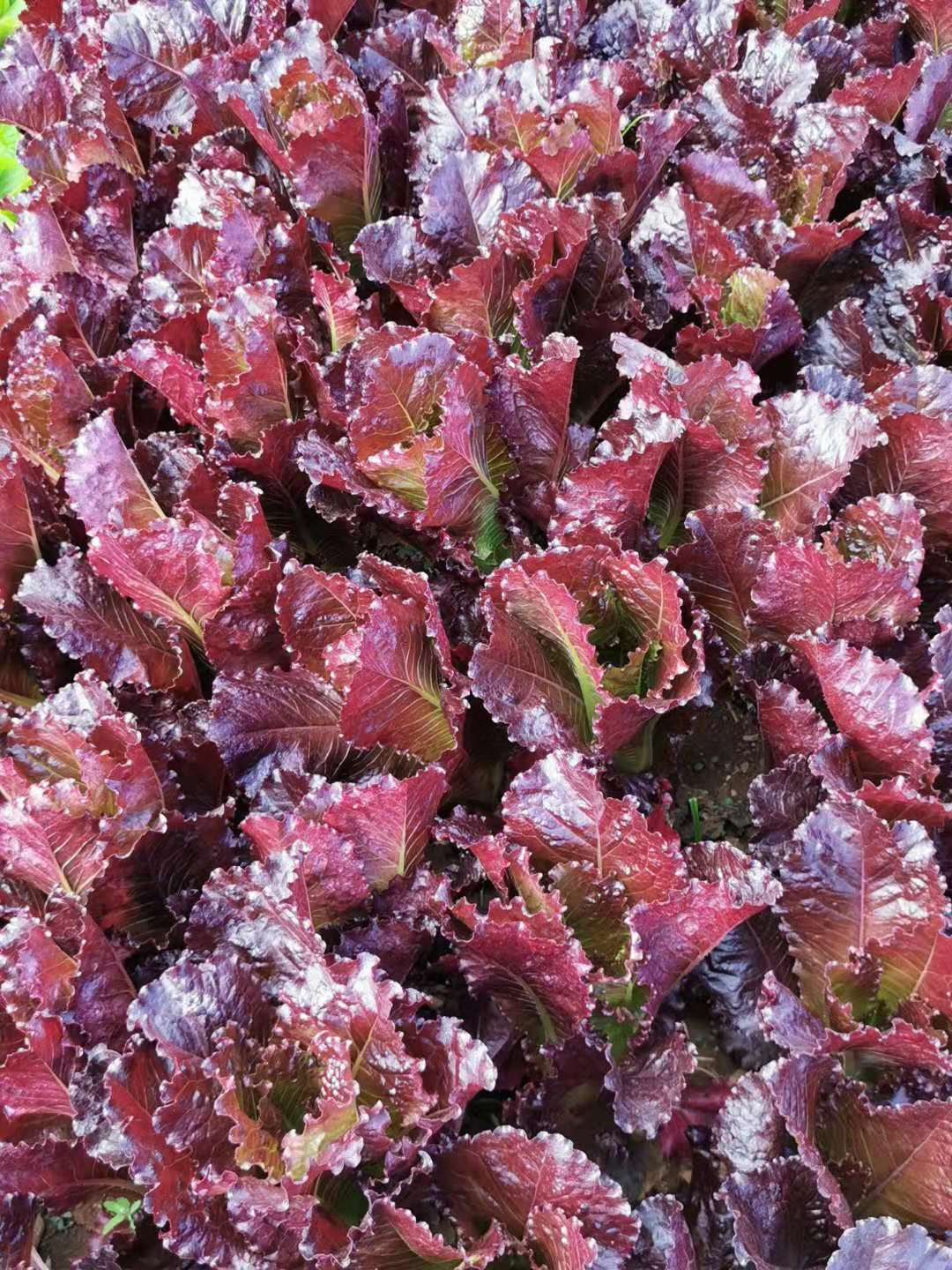 Cultivar. Taichung, Taiwan.